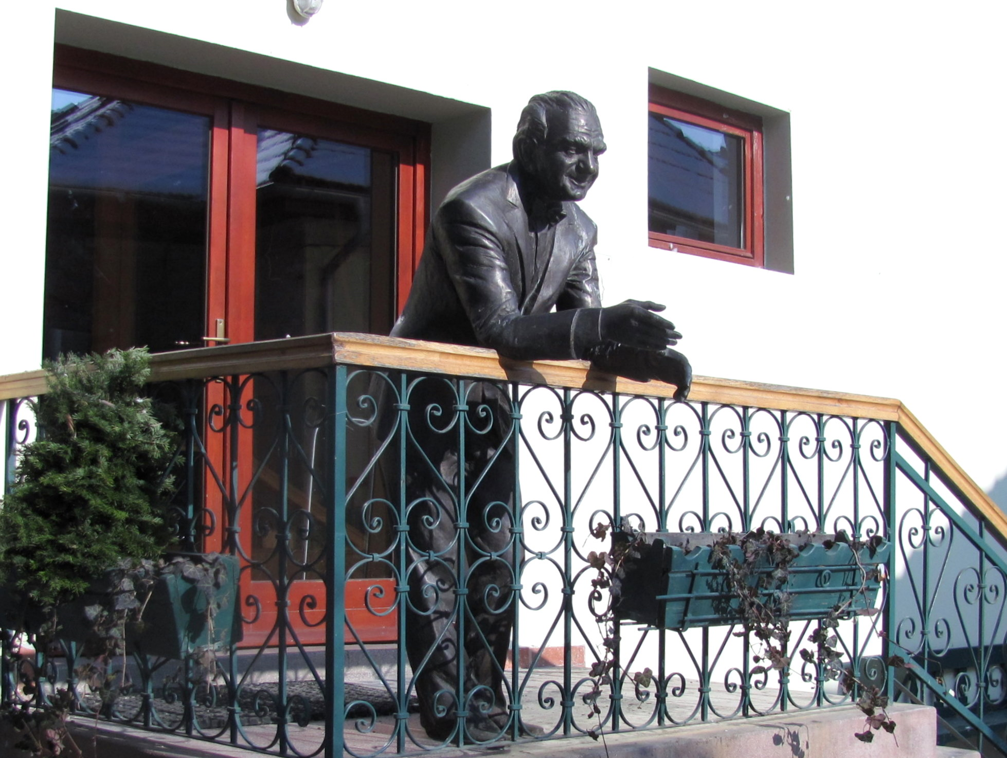 Ion Ratiu's statue inside the CRD - (December 1, 1918 Square)